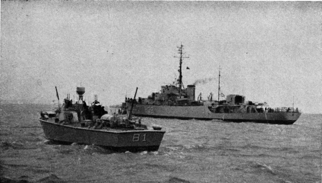 Frigate ARA Heroína (P-32) and ARA LT-81